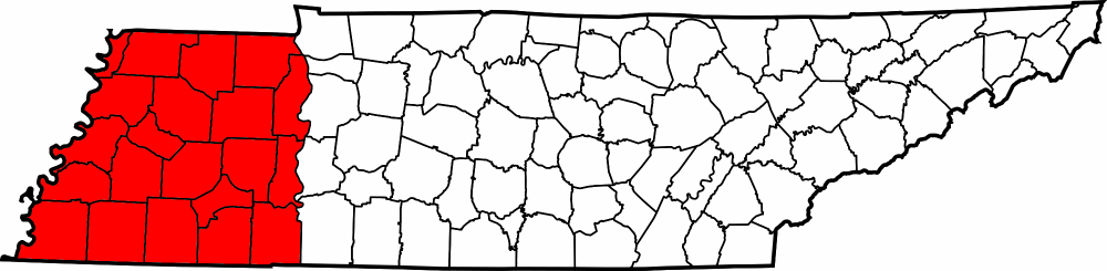 Map showing the counties of West Tennessee, United States.